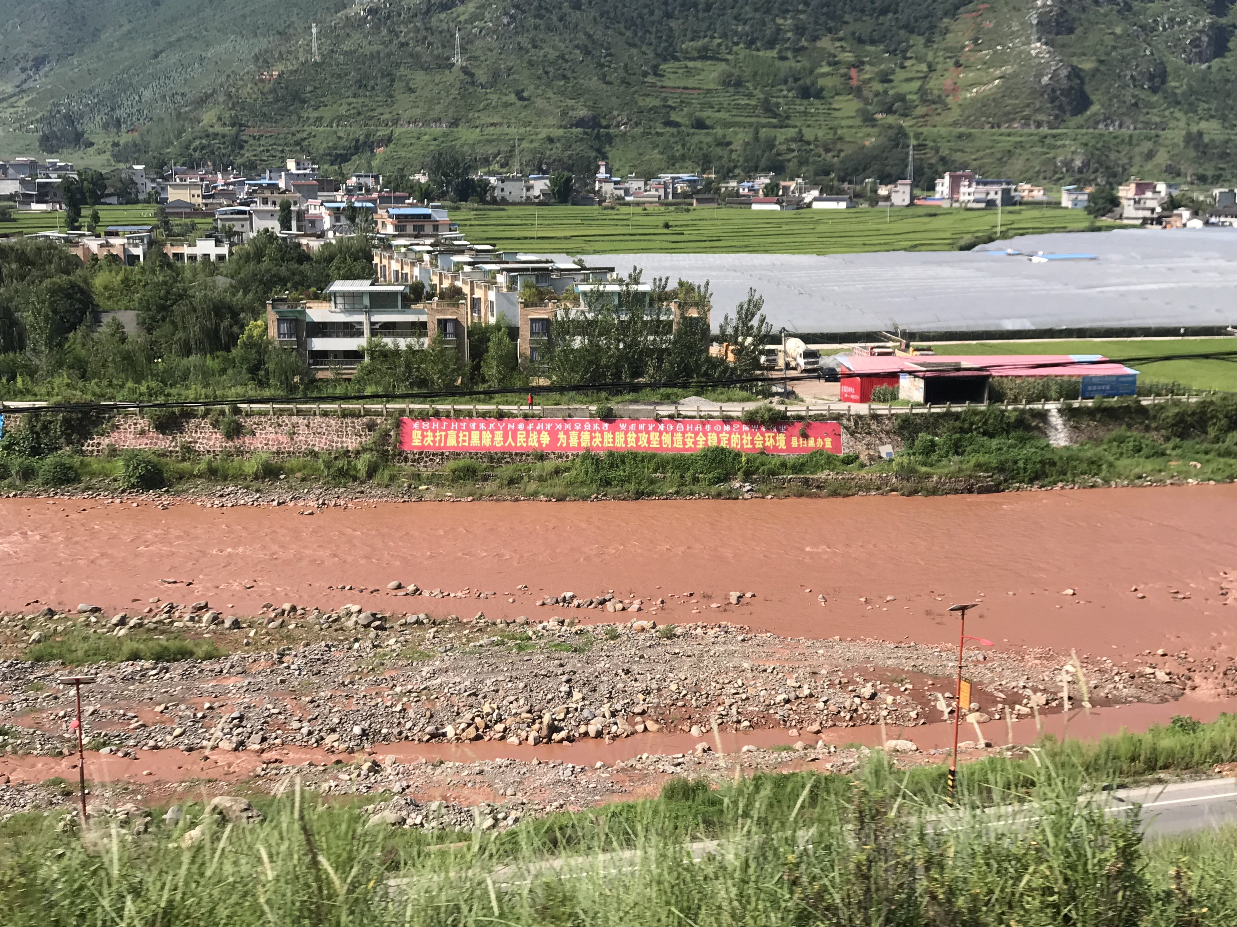 201908 Gangster-Busting Slogan in Xide County